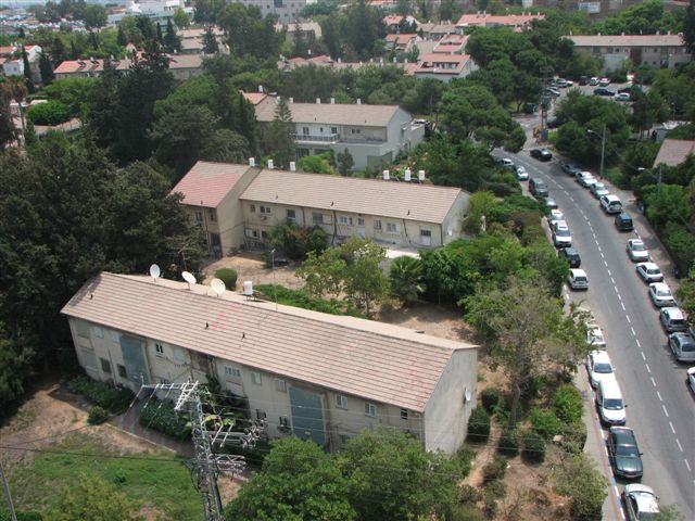 Typical residential buildings from the 1950's in Ramat Aviv, Tel Aviv